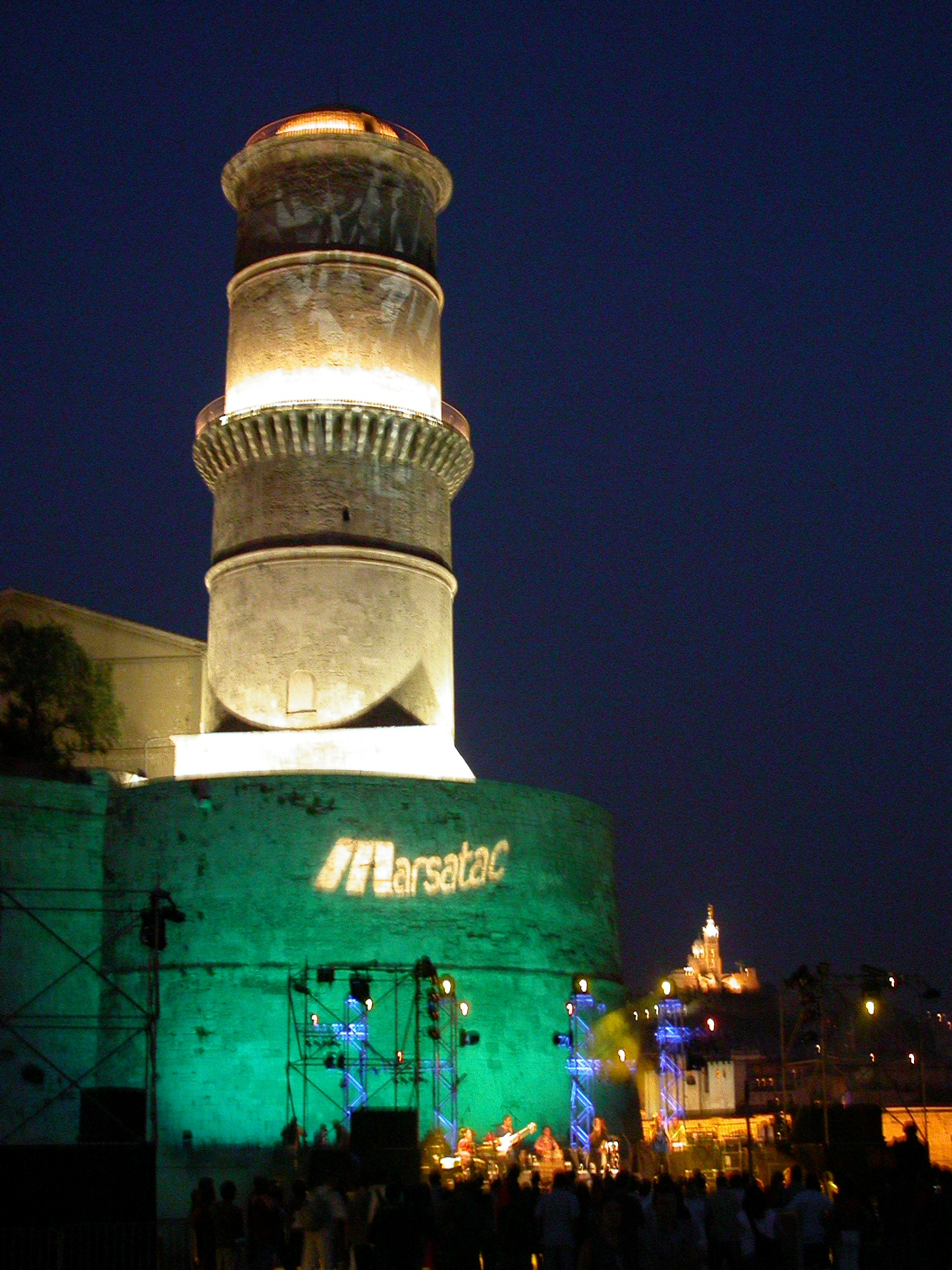 Projection of the Marsatac logo on Fort Saint-Jean in Marseille (France)